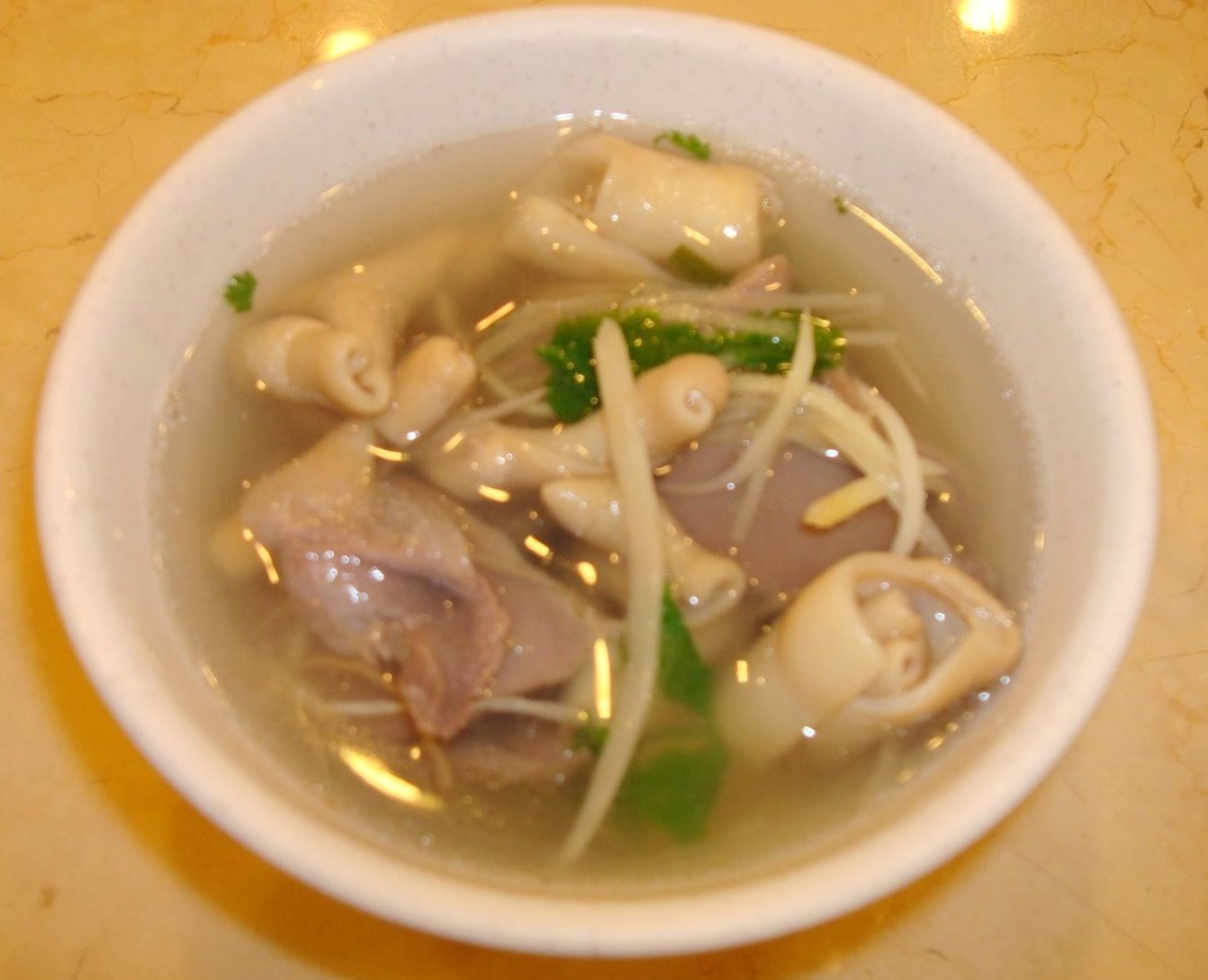 Xiashuitan (下水湯) Chiken offal soup from Taiwan